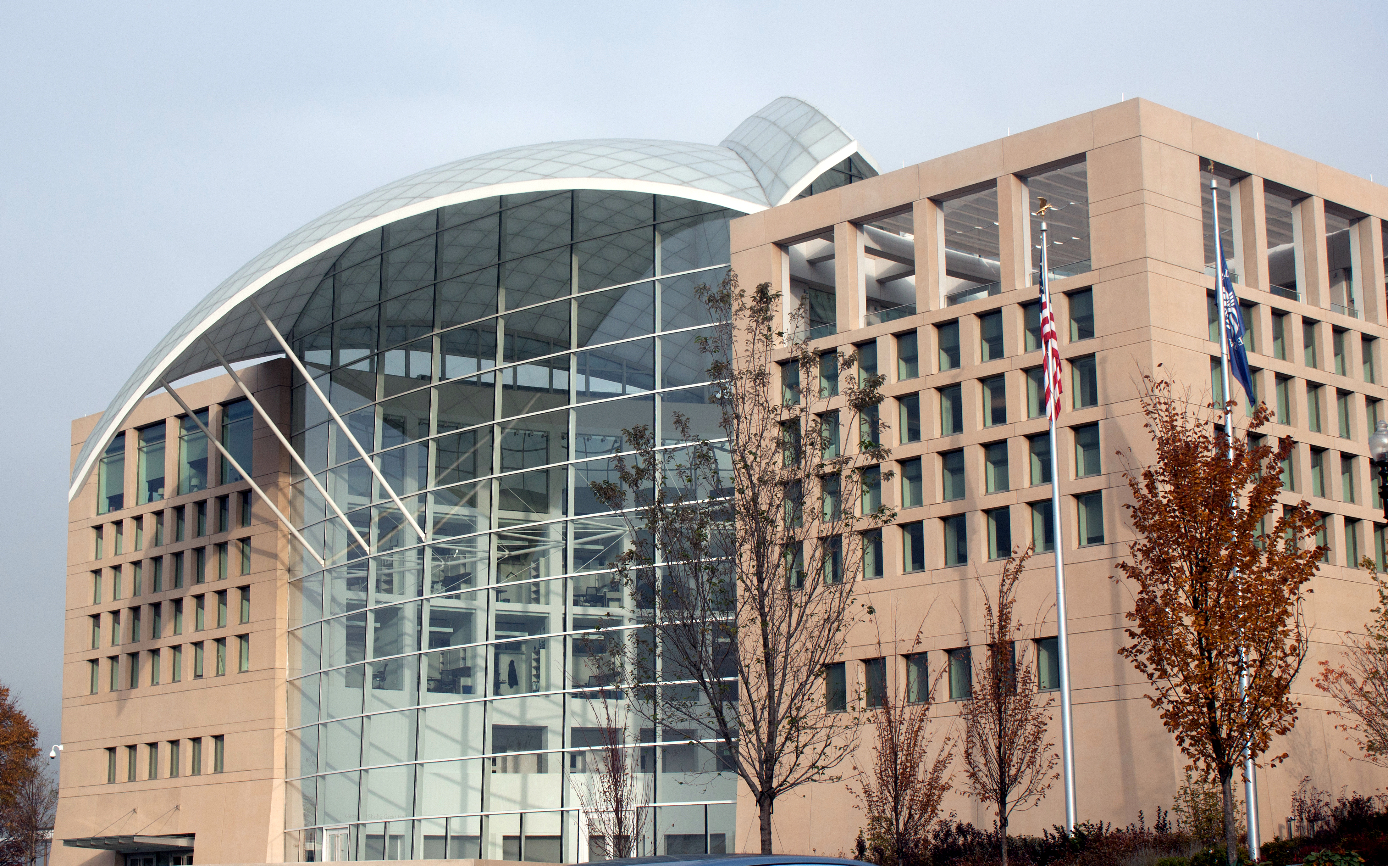 Headquarters United States Institute of Peace in Washington D.C.